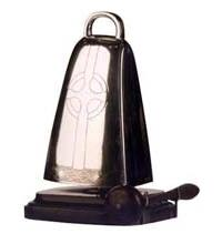 Collinstown, archaeological site in County Westmeath. Available to Public in Dublin: nitpickers abstain. Like anyone equiped with photographic equipment, and image treatment software, satisfactory resluts are today attainable, by anyone, me in this case: NIT Pickers, Puretins, and otherwise.... Circulate, continue your road